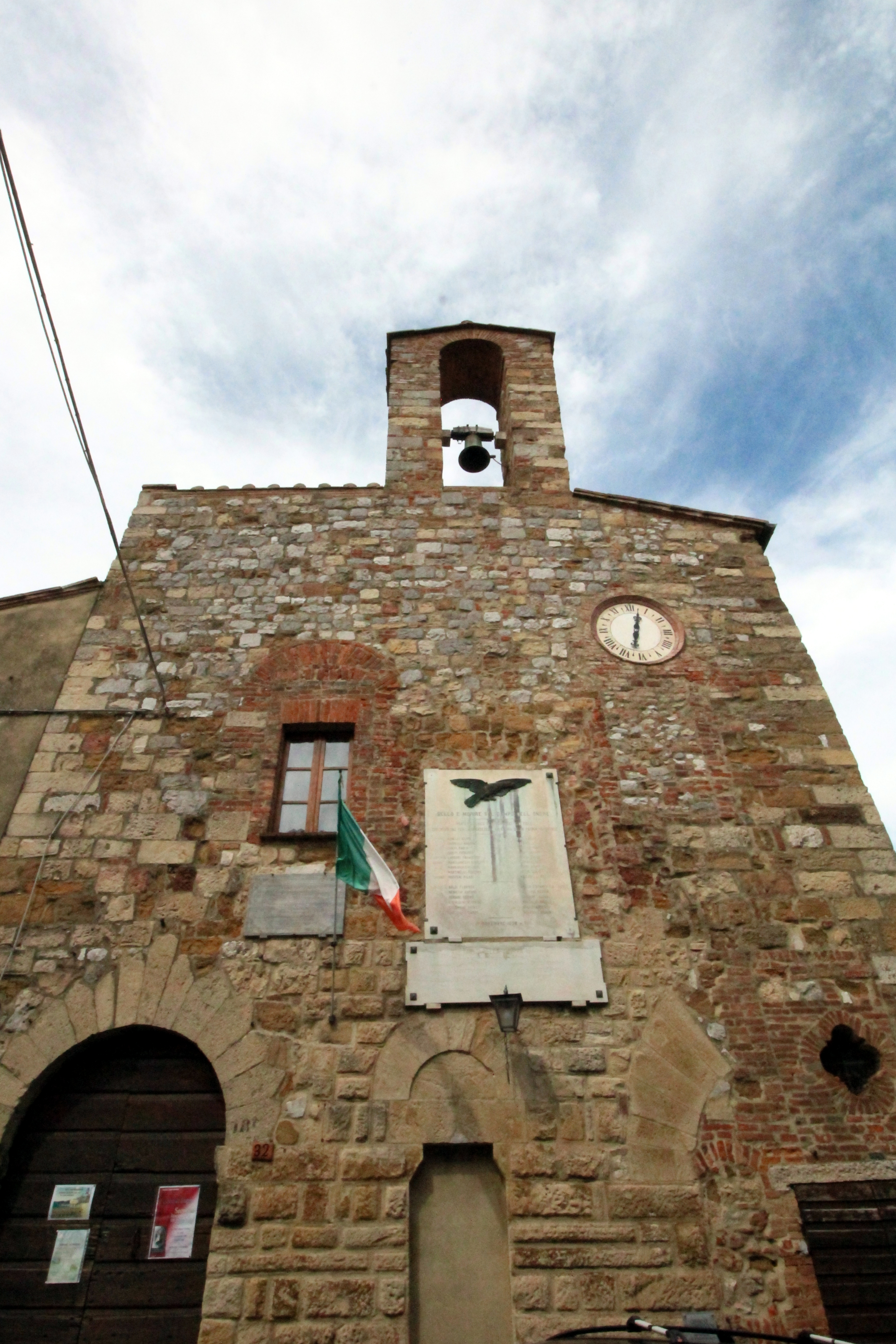 Ex-Palazzo della Giustizia in Montefollonico, hamlet of Torrita di Siena, Province of Siena, Tuscany, Italy